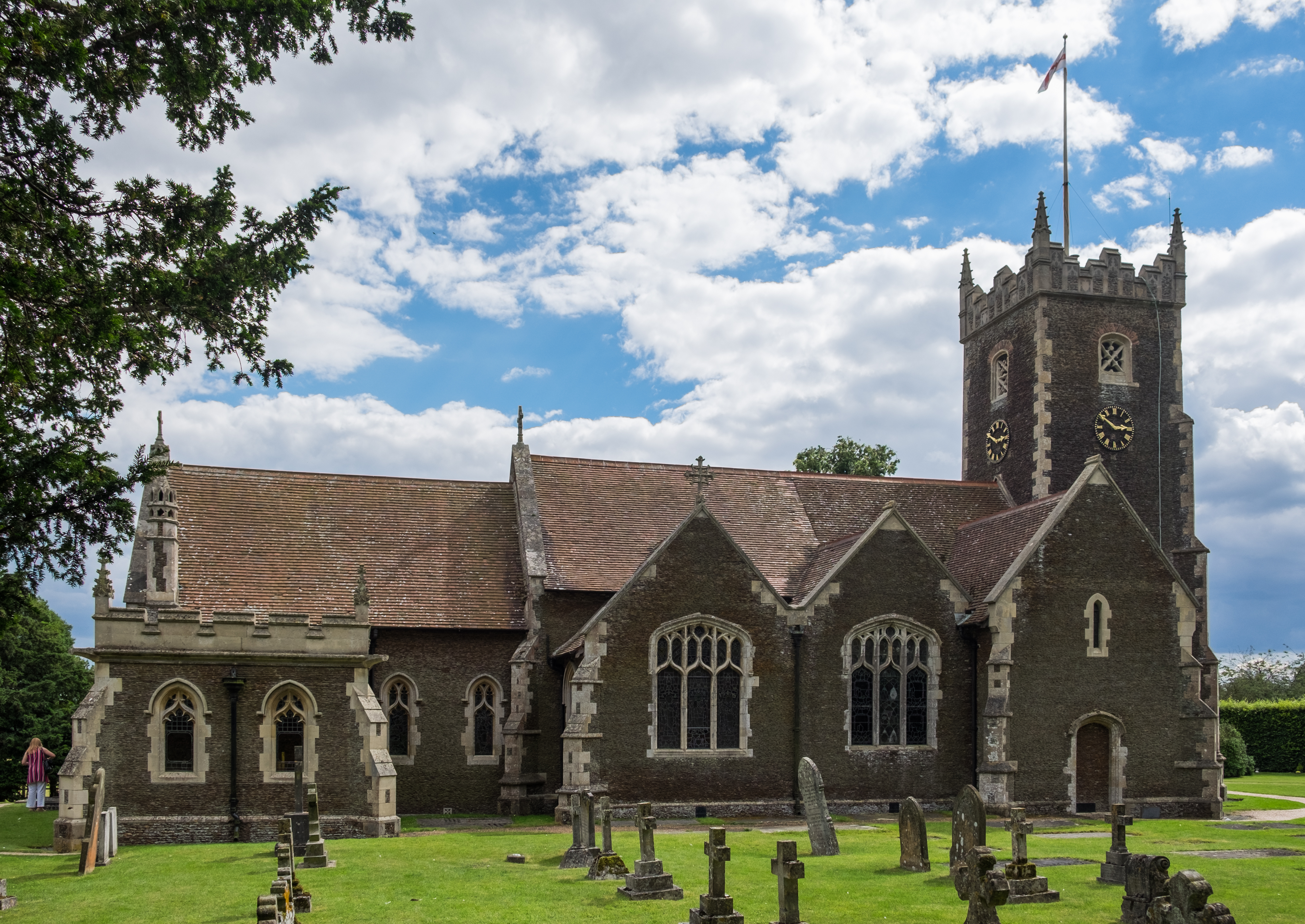 St Mary Magdalene Church, Sandringham, Norfolk, England. This church, on the boundary of Queen Elizabeth II's Sandringham Estate, and used by members of the British Royal Family when staying at Sandringham, is a grade II* listed building in England.